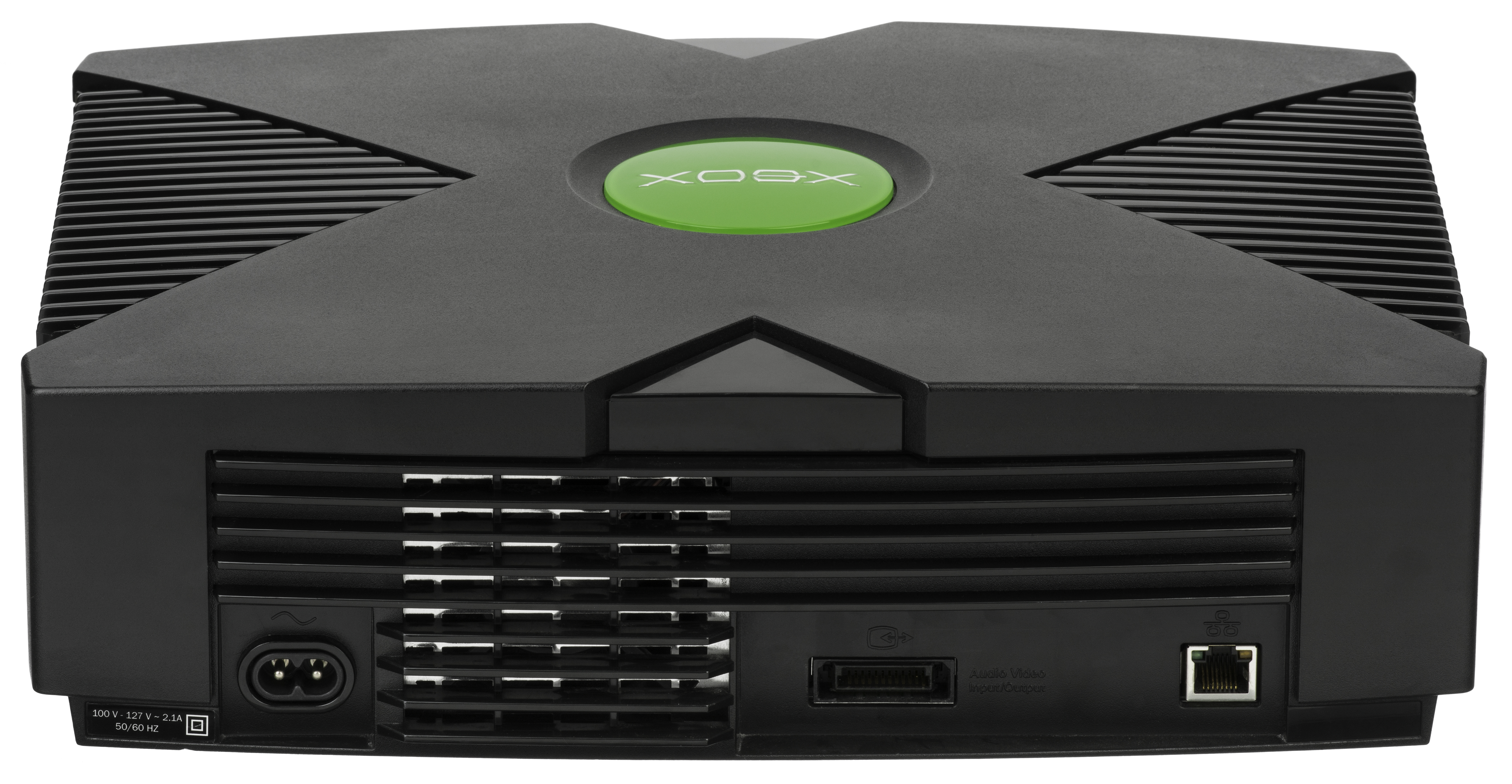 The Xbox, a sixth-generation gaming console made by Microsoft that was first released in 2001. The Xbox was Microsoft's first foray into the gaming console market, and was followed by the Xbox 360 in 2005. The console is notable for having a built-in hard drive, breakaway controller dongles and an Ethernet port to support Microsoft's online gaming service, Xbox Live.